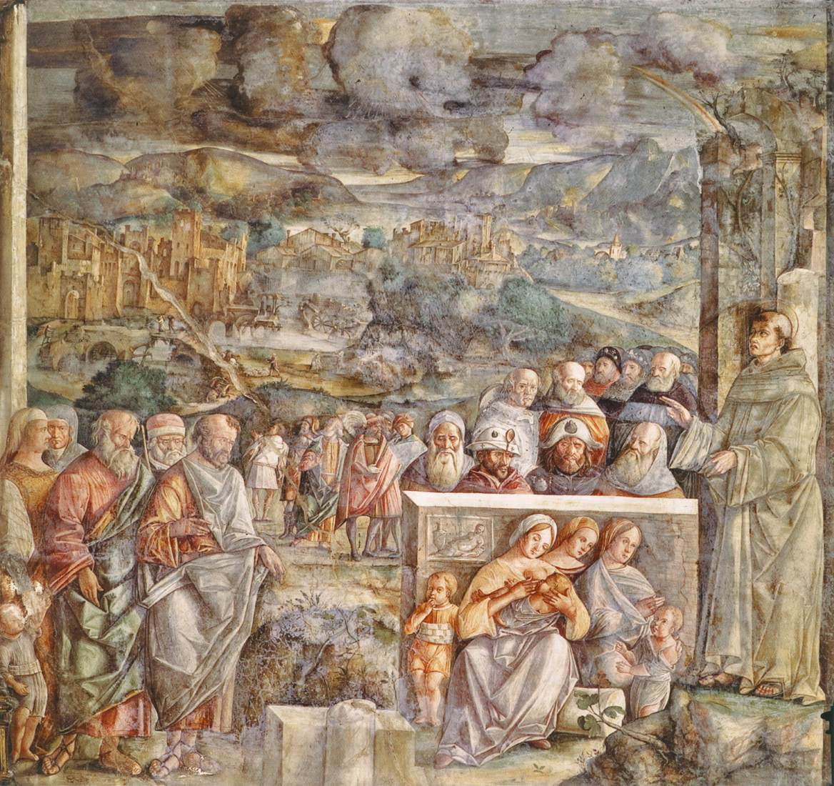 Giovanni Antonio Requesta St Anthony Preaching 1510-11 Fresco Sala Capitolare, Scuola del Santo, Padua